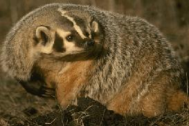 American Badger at the Modoc National Wildlife Refuge